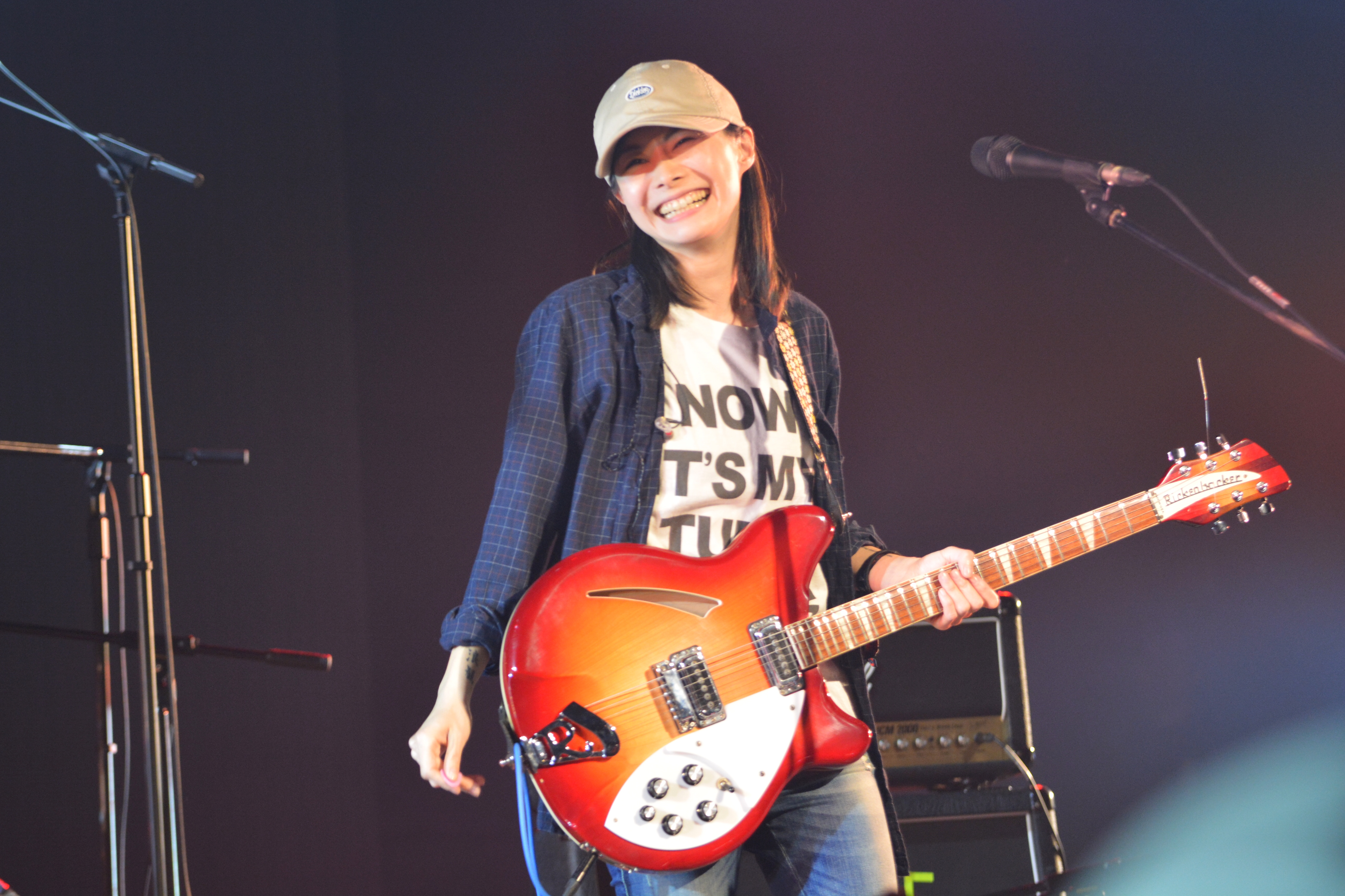 2018大港開唱-鄭宜農